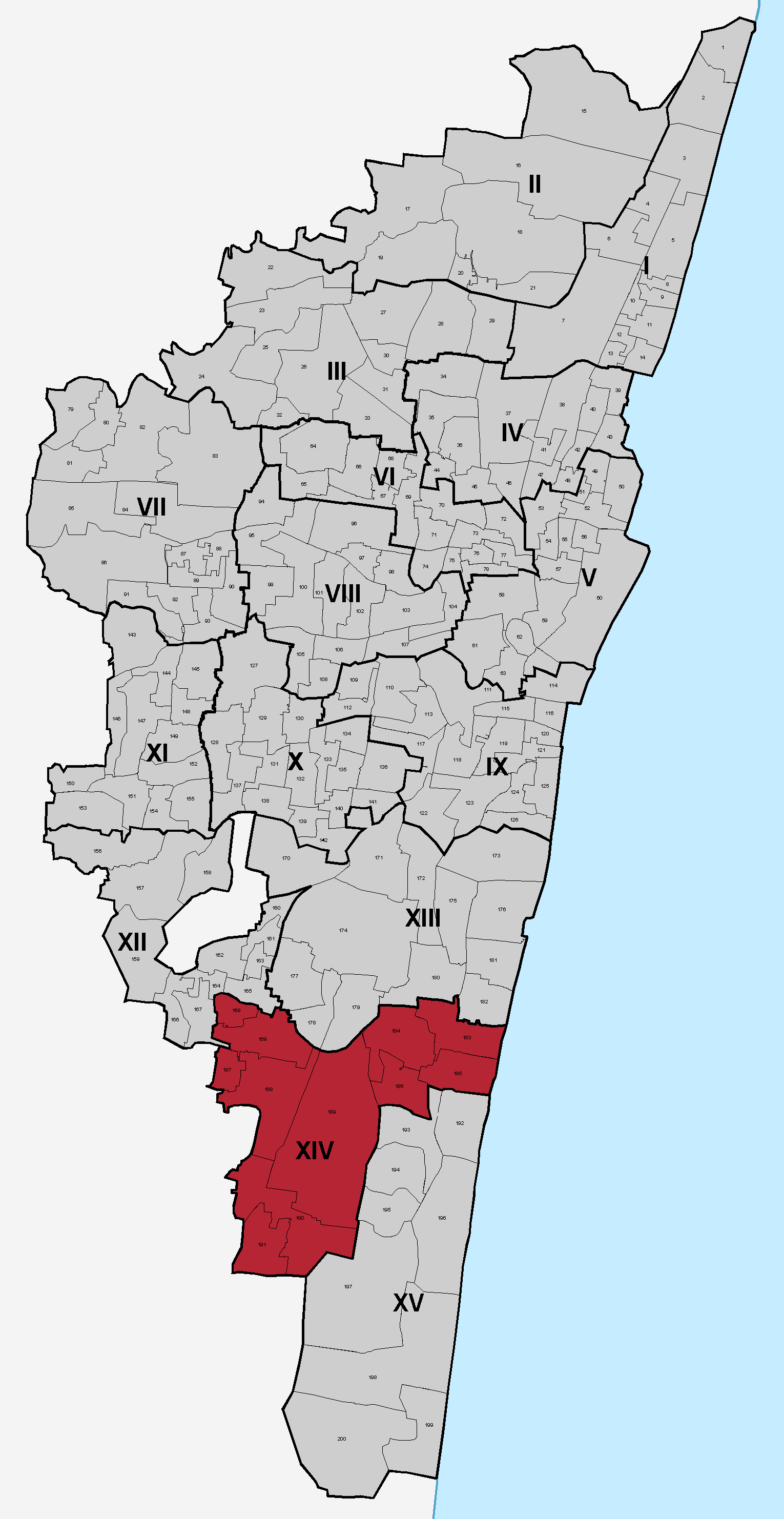 Location of Perungudi zone in Chennai